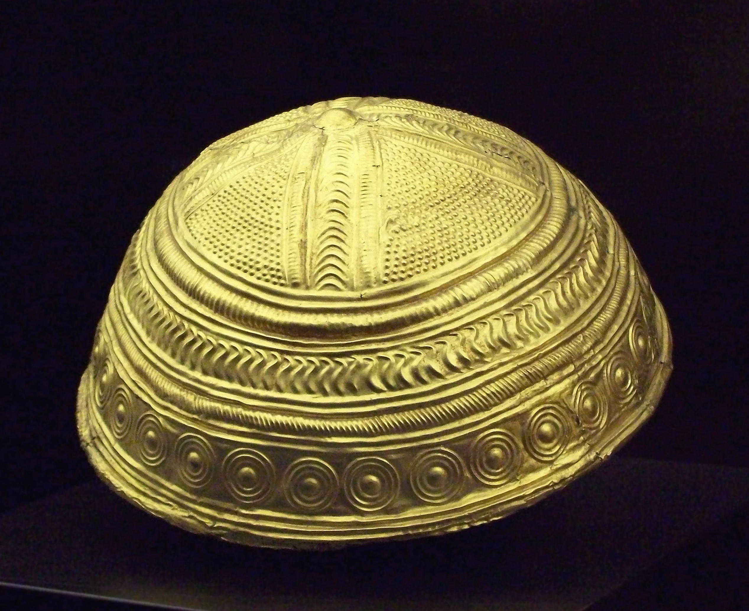 A bowl from the late Bronze Age.